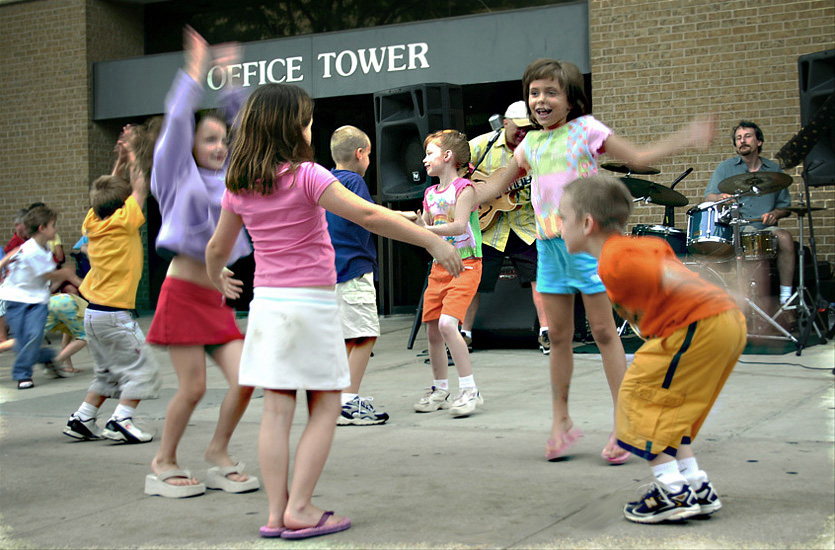 During a Thursday Brown Bag Concert on the streets of downtown Lawrence. Photo by Gary Mark Smith.